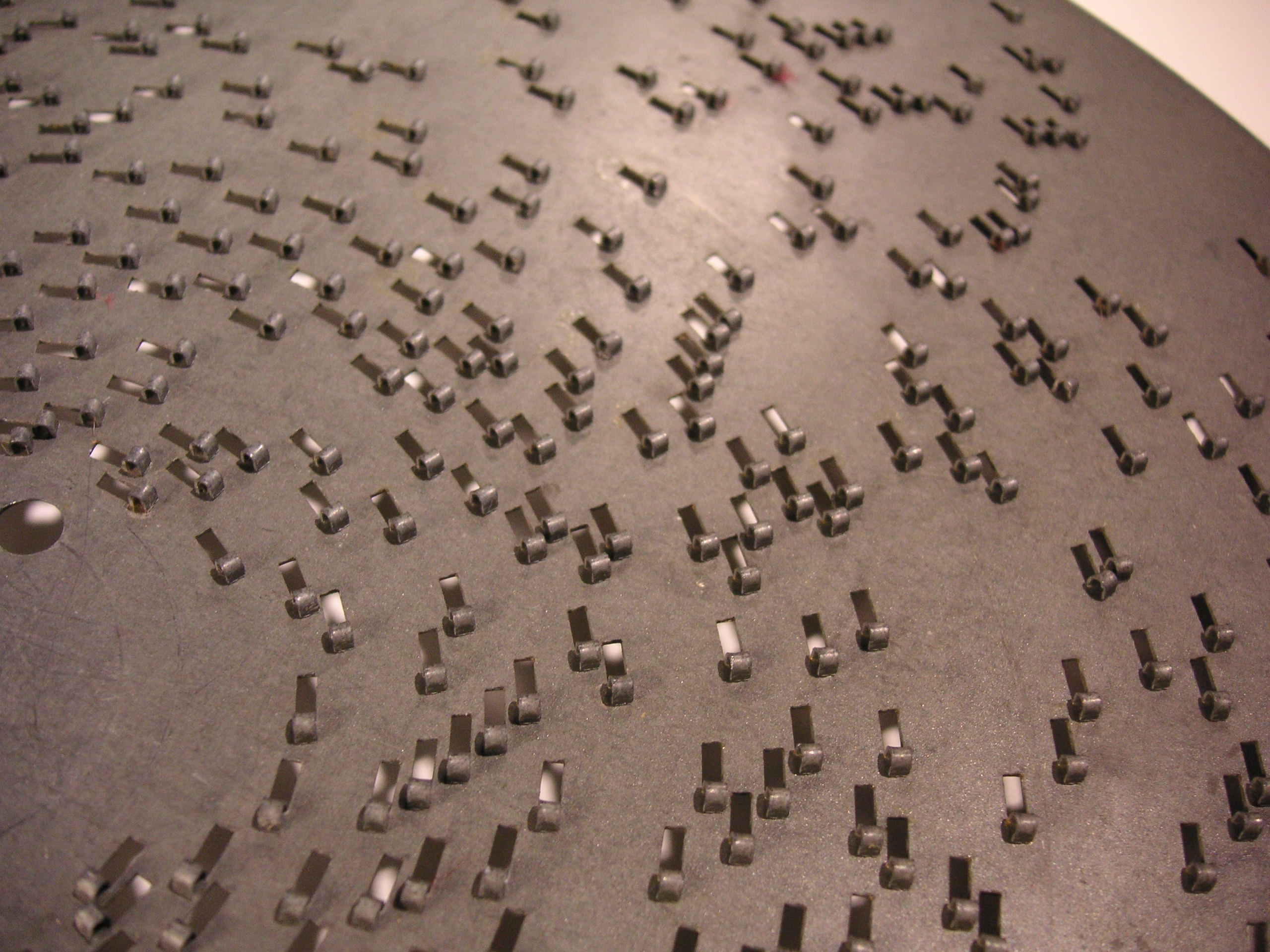 Polyphon, Lochplatte Unterseite